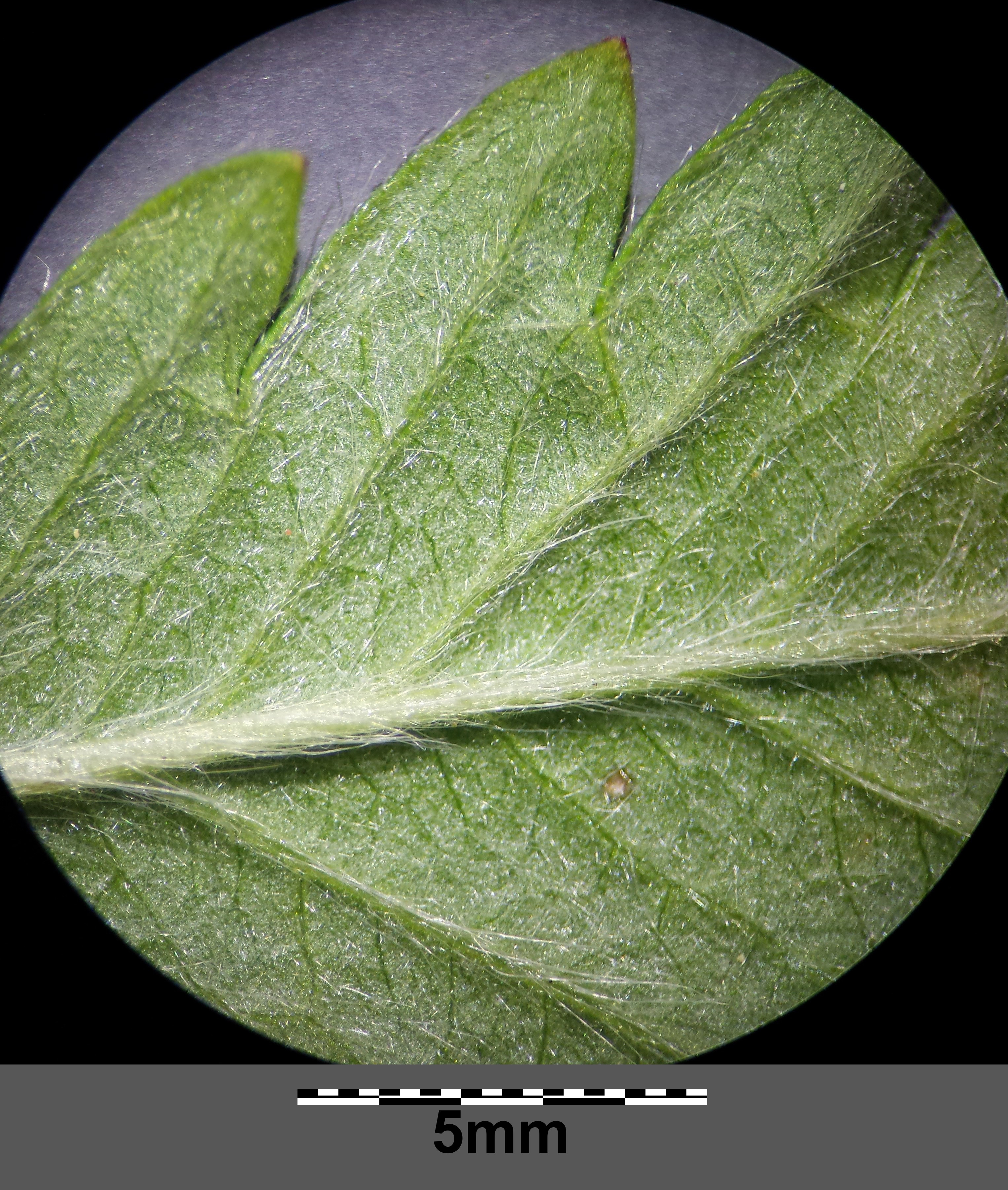 Bottom side of leaf Taxonym: Potentilla inclinata ss Fischer et al. EfÖLS 2008 ISBN 978-3-85474-187-9 Location: Floridsdorf rail station, Vienna-Floridsdorf - ca. 160 m a.s.l. Habitat: sandy area